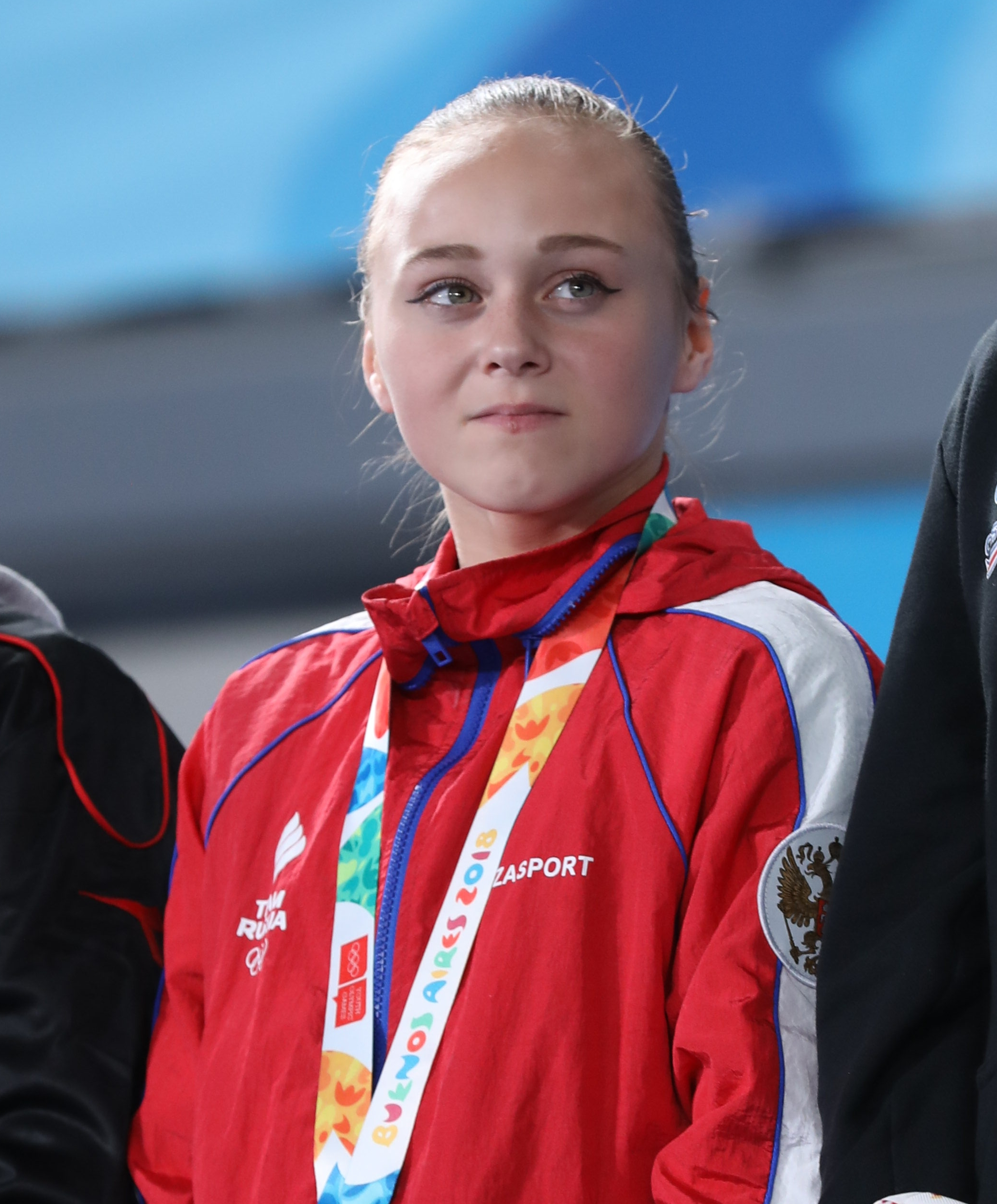 Gymnastics mixed multi-discipline team competition: Victory ceremony